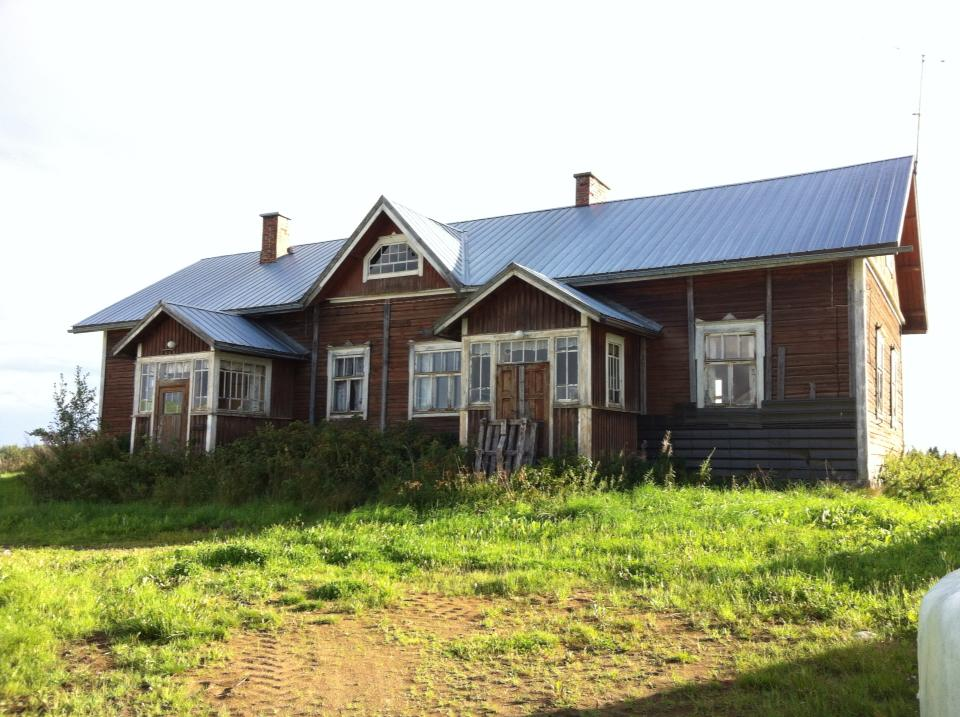 Old building, typical for the style of holding farms and what later developed into small manors in Eastern Finland.